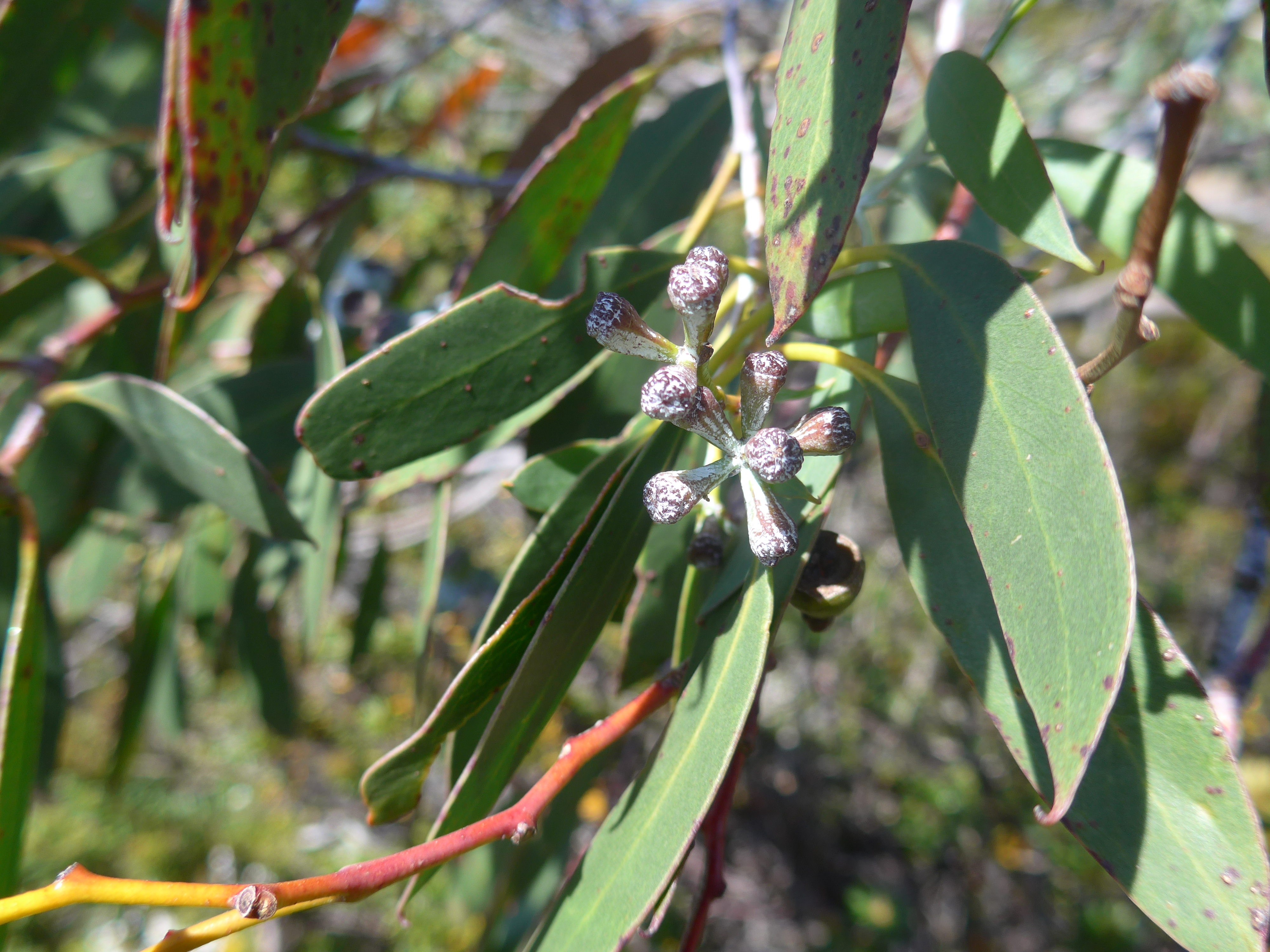 Taken in Mt. Field National Park, around 1200m above sea level.